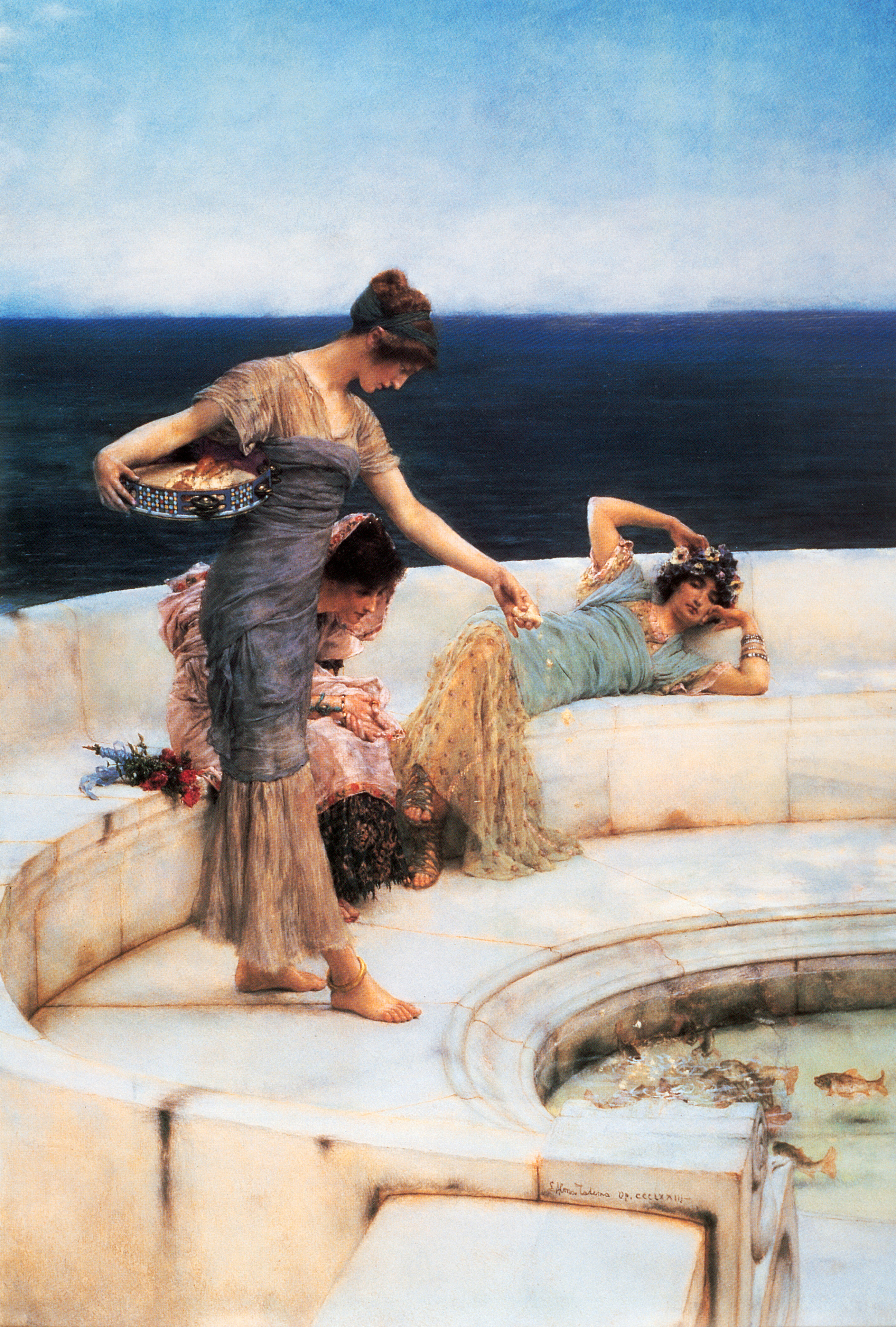 A woman feeding fishes in a marblescape